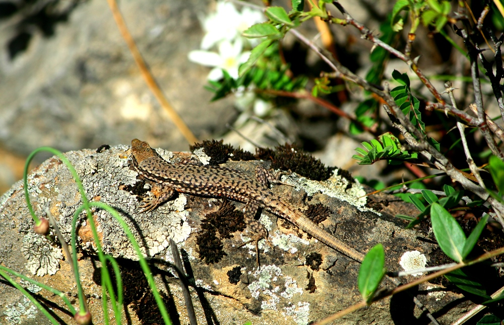 This species has been recorded from the Alborz Mountains of northern Iran and the Kopet Dagh Mountains of Iran and adjacent Turkmenistan (only at Sushankaa Bol'shie Kazanki) (Anderson, 1999). It has been found from close to sea level to 3,355m asl.Scientific Name: Darevskia defilippiiSpecies Authority: (Camerano, 1877)Common Name/English – Alborz LizardSynonym/Lacerta defilippii (Camerano, 1877)